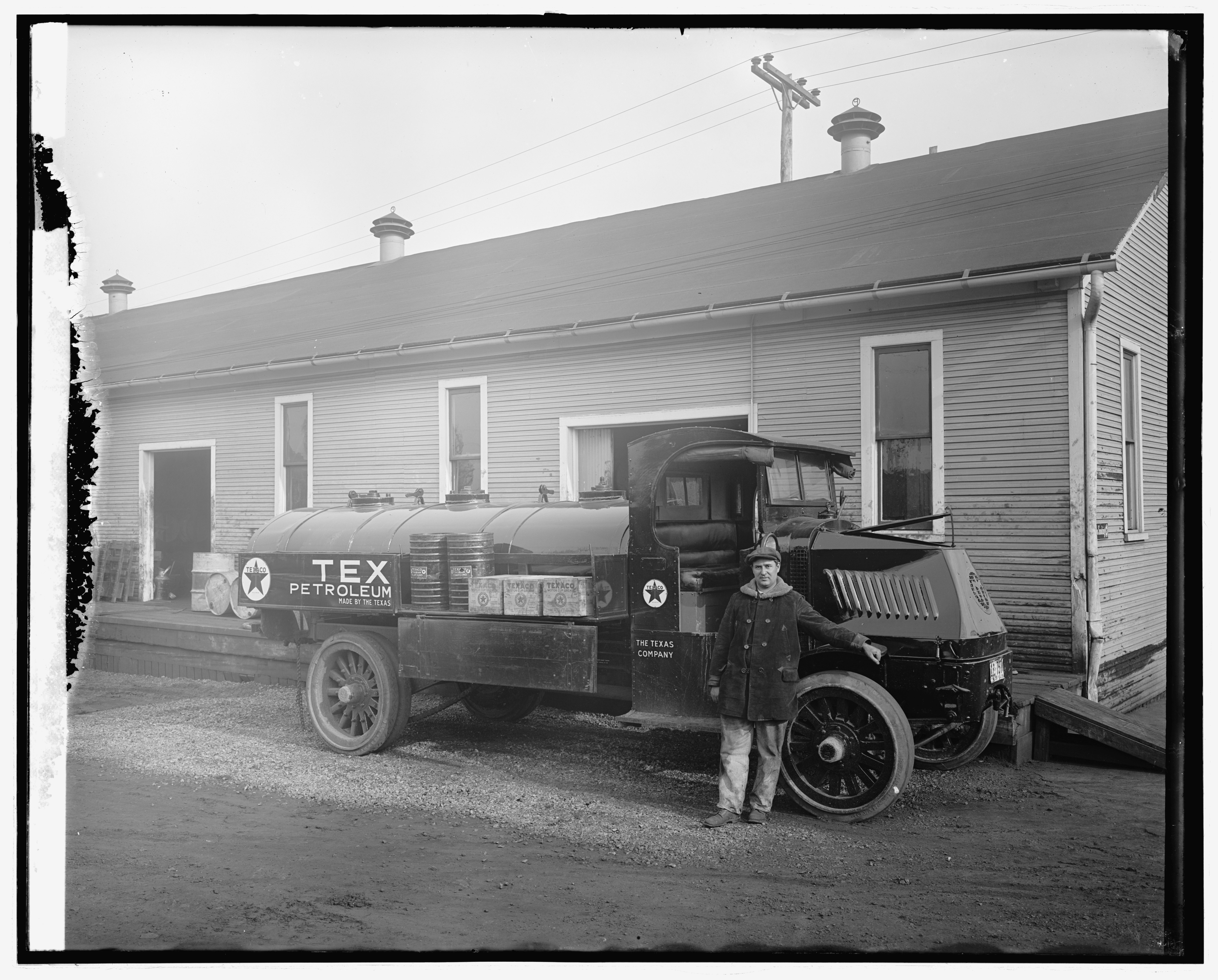 Title: Texas [Texaco] Co. Ace truck Abstract/medium: 1 negative : glass ; 8 x 10 in. or smaller